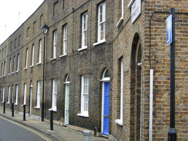 Theed Street, Waterloo Seen from its junction with Roupell Street, this is part of the Roupell Street conservation area. The streets were developed in the 1820s by John Palmer Roupell and have survived remarkably intact.